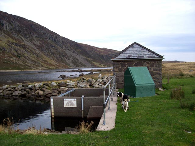 Water Intake The Dolgarrog hydro-electric power station SH7767 was fed originally by water impounded in Llyn Eigiau by a dam and run down to Coedty Reservoir SH7566. After the catastrophic failure of the dam the water level was lowered considerably and the catchment was fed through a tunnel to Llyn Cowlyd SH7363 which forms the high-head generation supply. This building houses the control gear for the water intake to the tunnel.